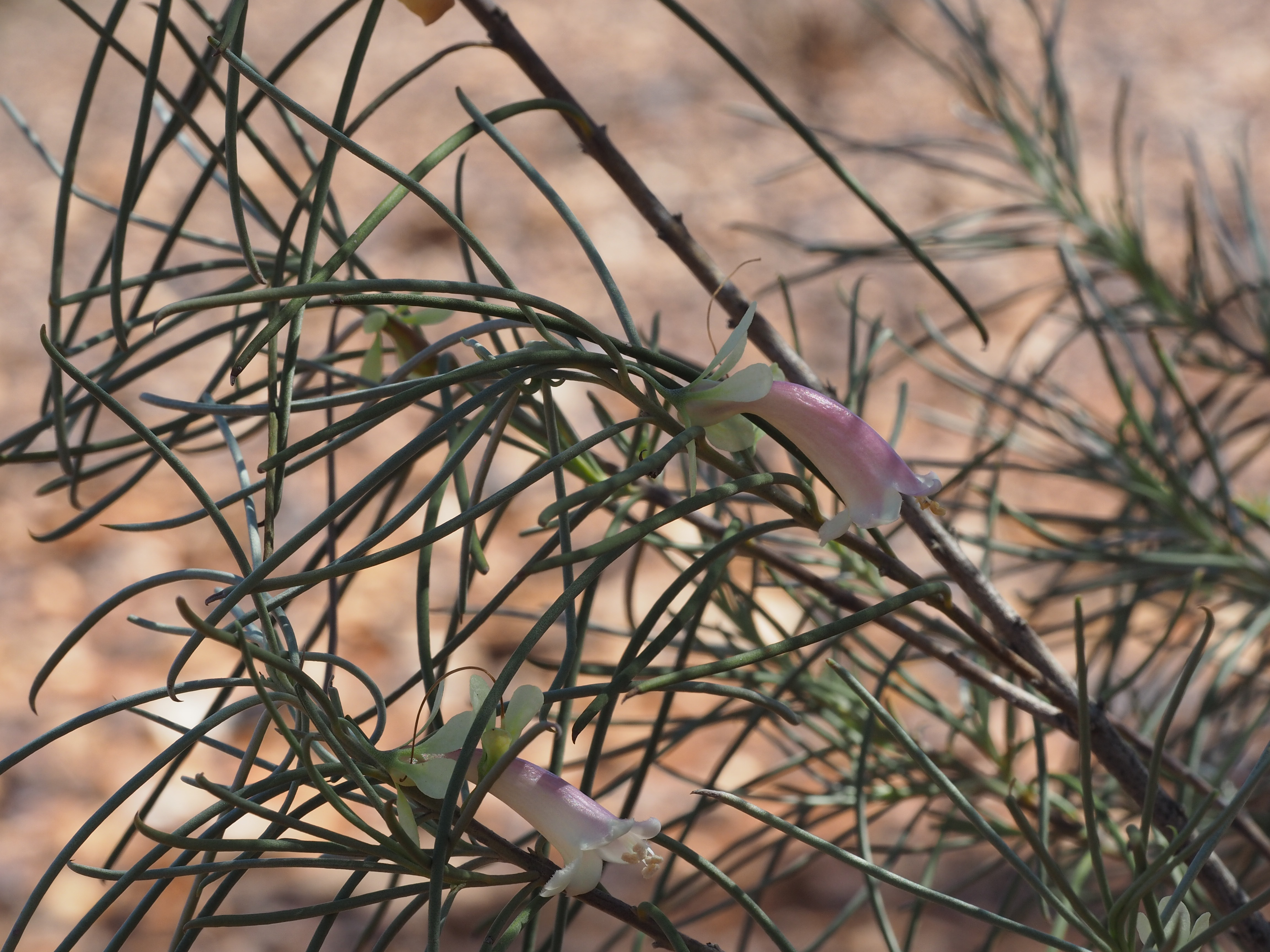 Eremophila oppositifolia angustifolia growing 3km south of Meekatharra